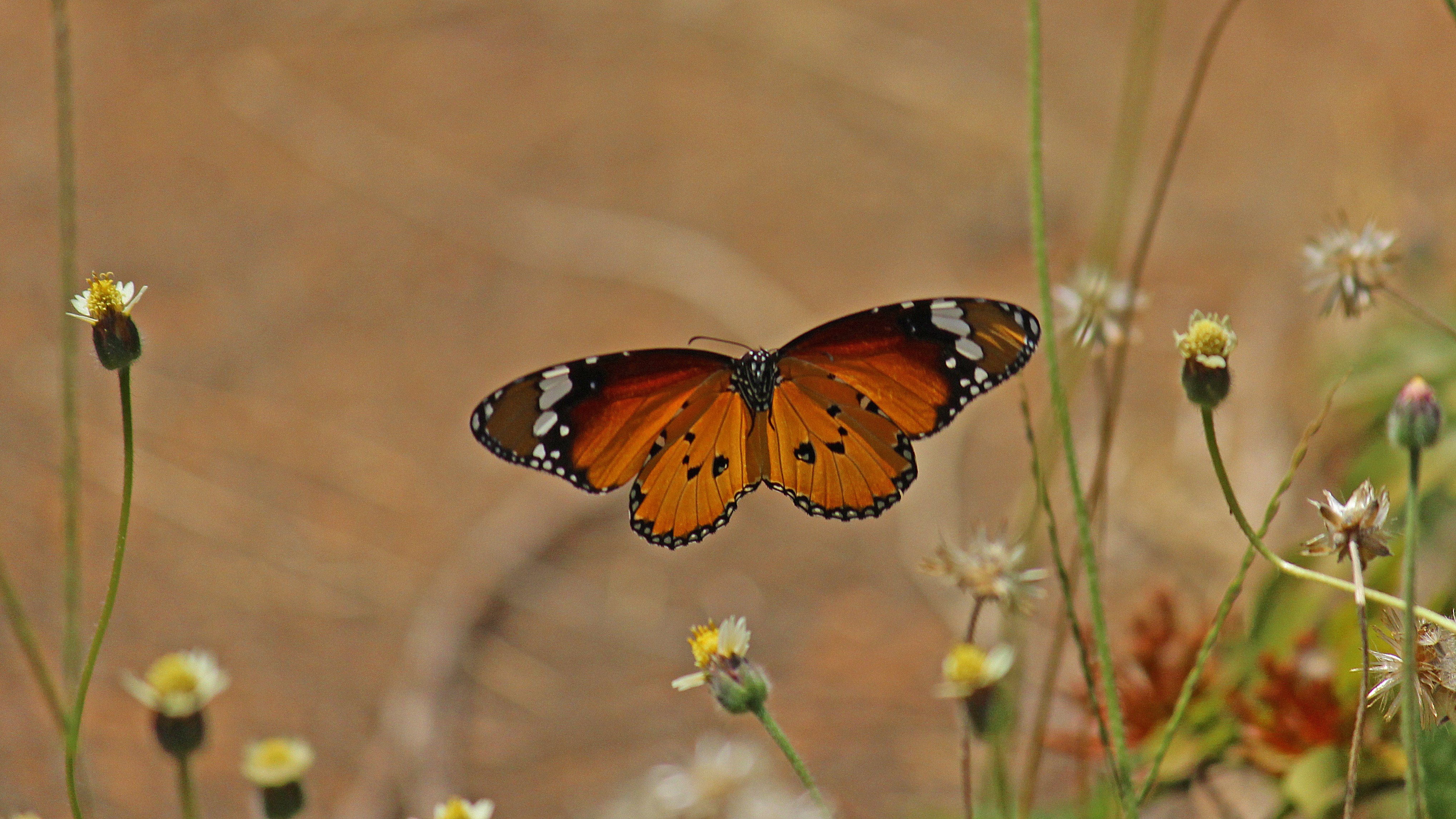 Butterfly landing at Botanical garden, Puducherry